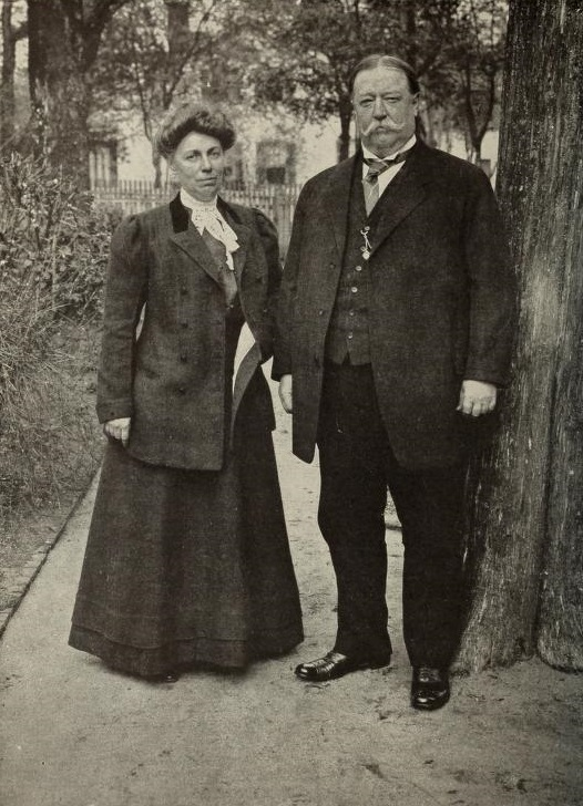 President-Elect Taft and Mrs. Taft at Augusta, Ga.